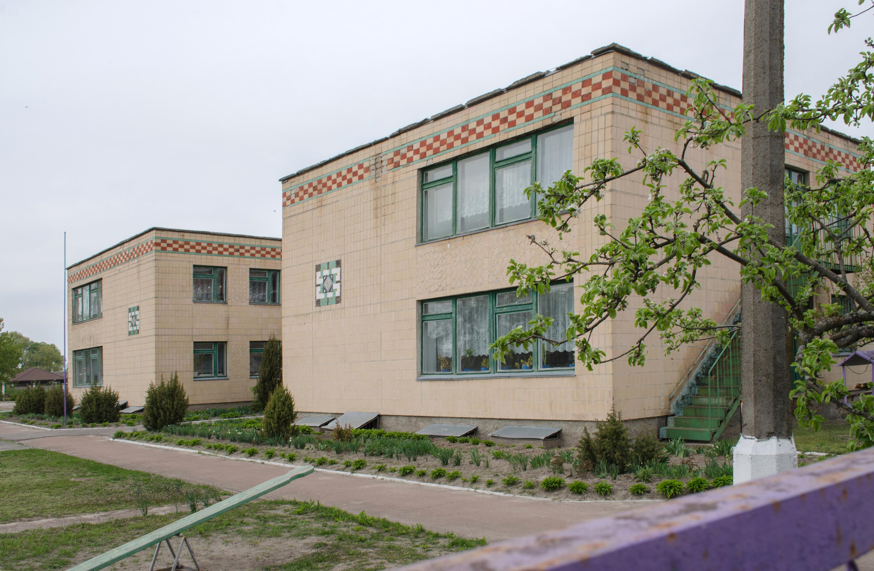 v.Snovianka, Chernihiv Raion, Chernihiv Oblast, Ukraine